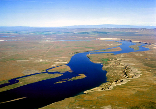 Columbia River in Hanford Reach National Monument, Washington, USA